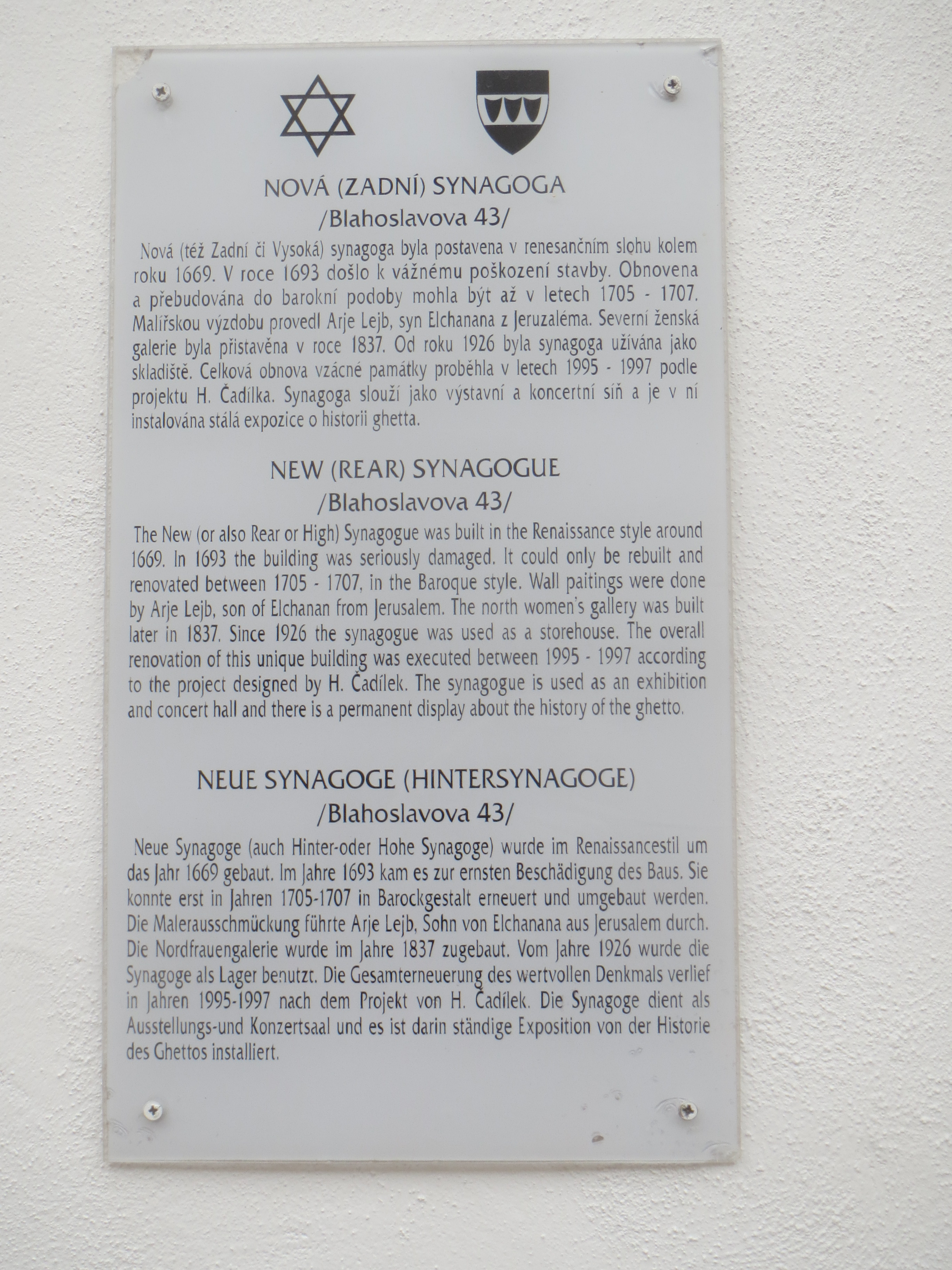 Plaque giving information about New synagogue (Třebíč)